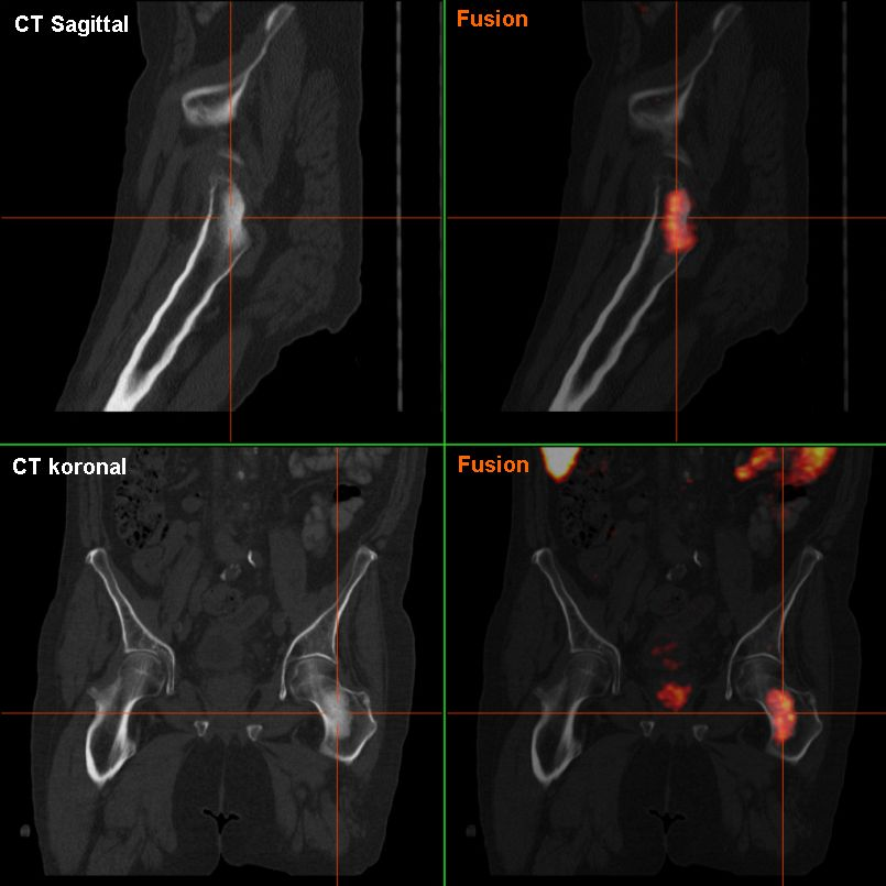 Osteoplastic metastasis of prostate cancer in choline pet/ct